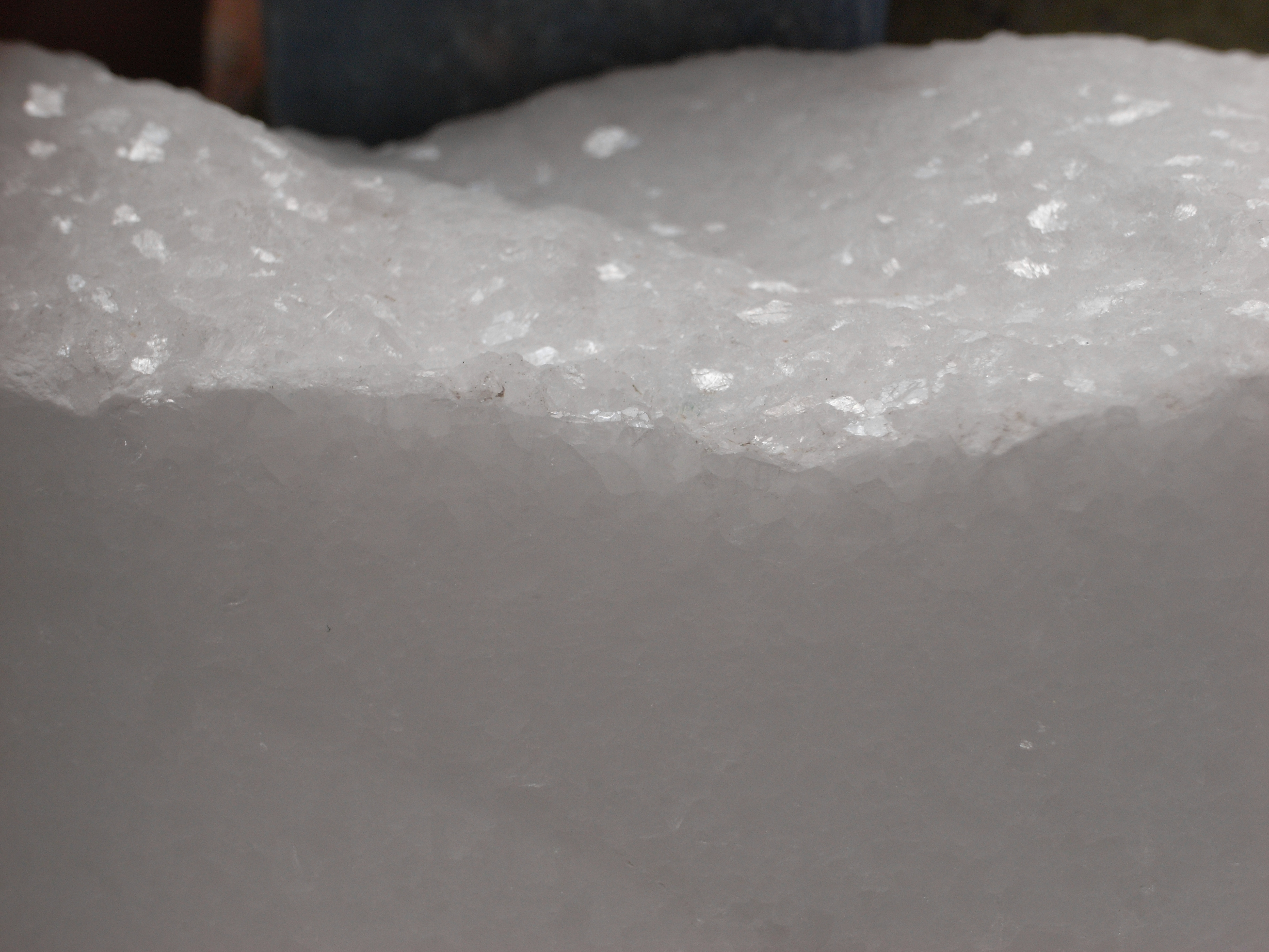 Thasos marble